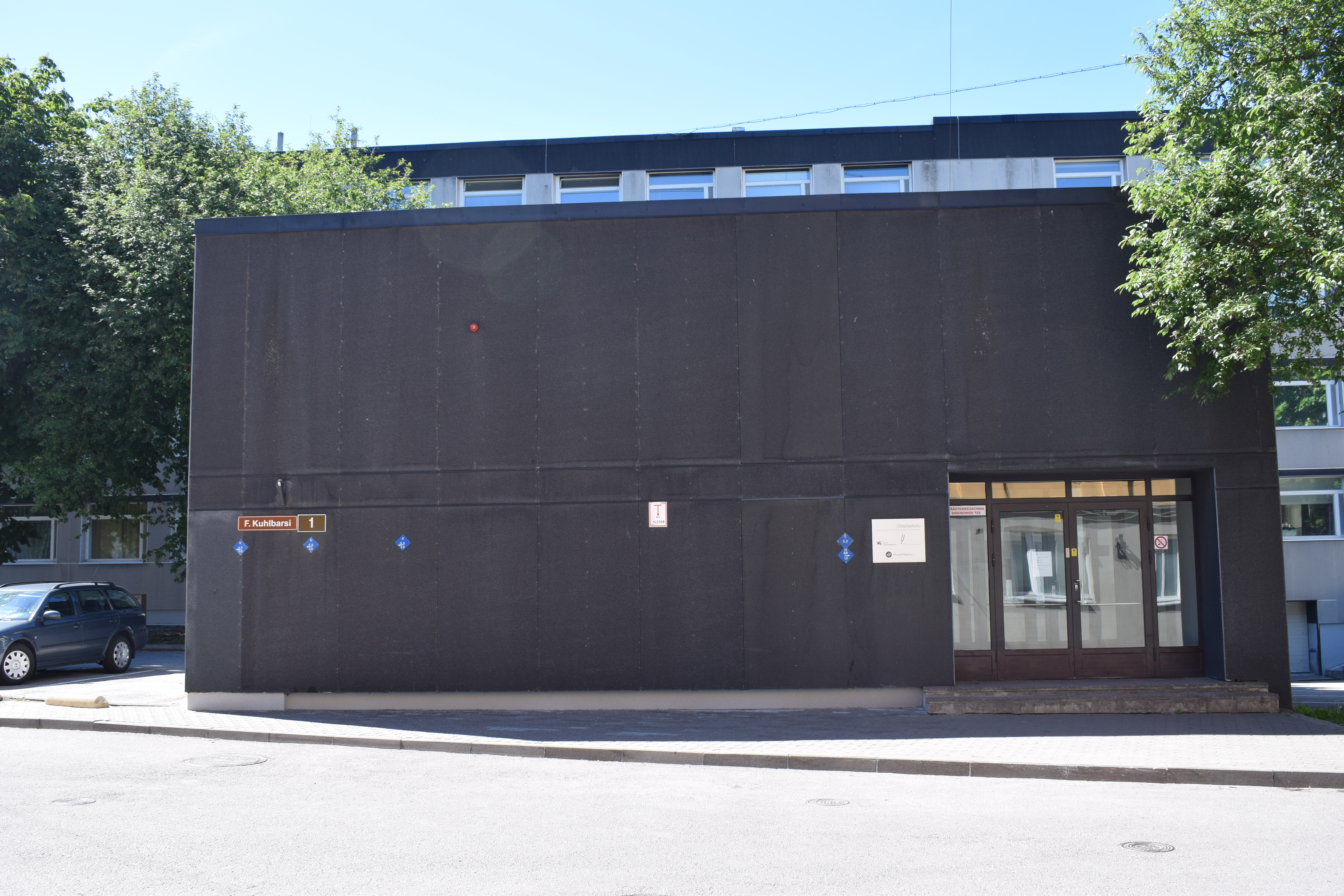 Friedrich Kuhlbarsi street 1